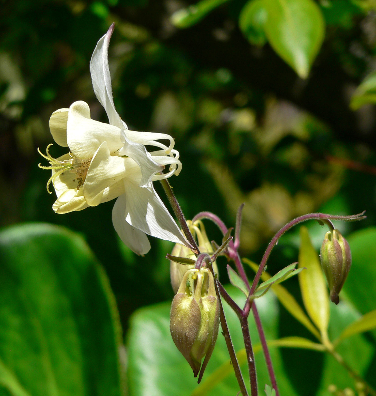 Aquilegia fragrans at the University of California Botanical Garden, Berkeley, California